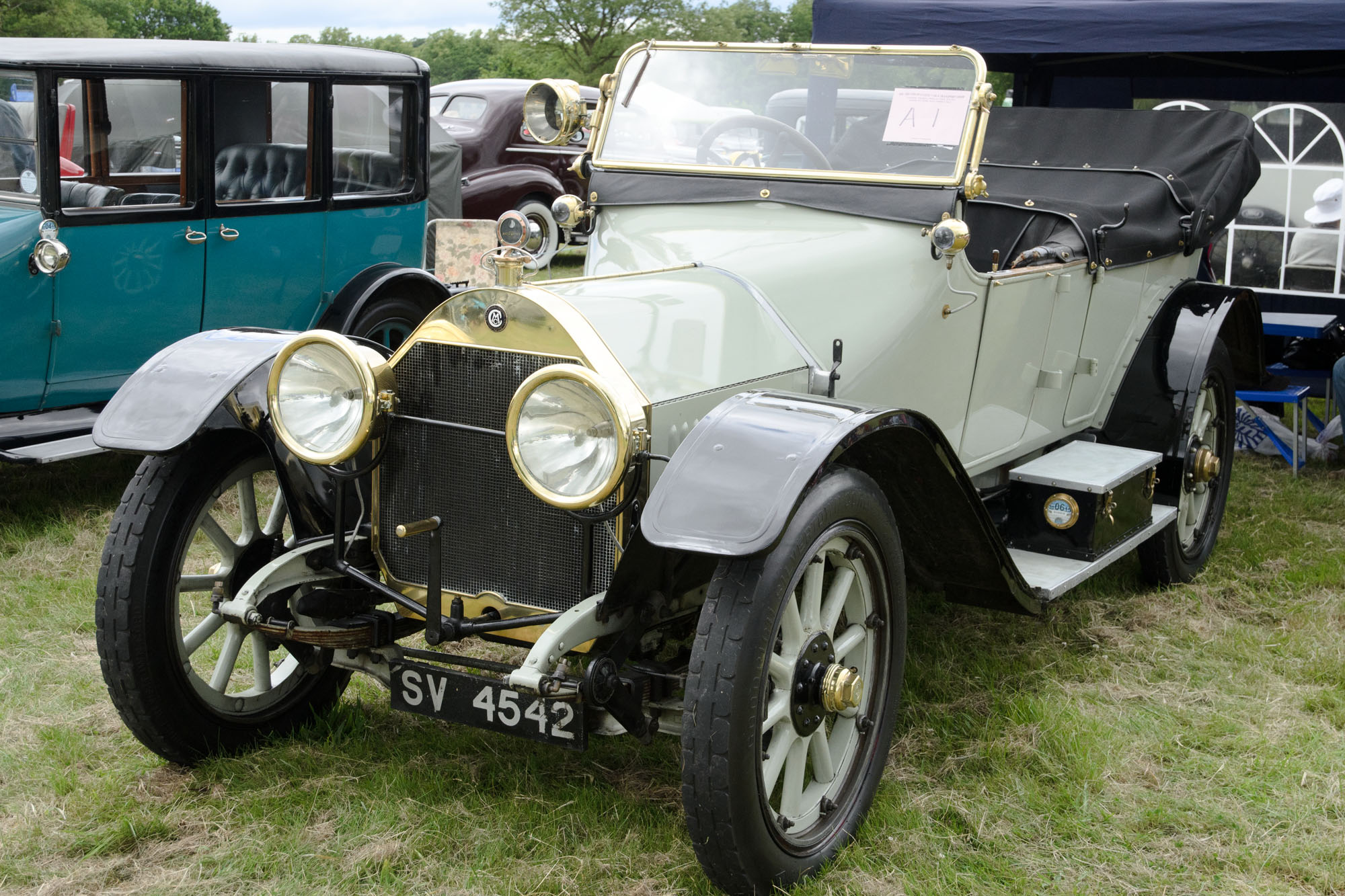 1913 Chalmers Model 17 torpedo tourer (DVLA) manufactured 1913 4837 cc Trentham Gardens Classic Car Show 21 June 2015